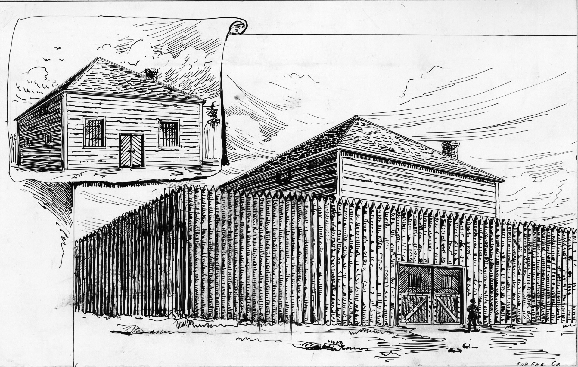 Jail (1799-1827), King St. E., s. side, at Leader Lane. Original caption: "Inscribed l.l.: THOMSON; Inscribed l.r.: TOR. ENG. CO. Pen & ink drawing reproduced in Evening Telegram series "Landmarks of Toronto" 12 October 1888, and in Landmarks of Toronto v. 1, p. 84. Inset shows jail from inside stockade."